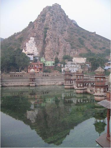 A pond in Alwar, Rajasthan. The snap shown is of artificial pond called "Sagar" which is present behind the collectorate of Alwar. It was built by the Naruka Maharajas of Alwar. In the same complex are situated : Musi Maharani Ki Chhatari (Cenoteph of Queen Musi), Alwar Museum and Alwar collectorate which houses many government offices.